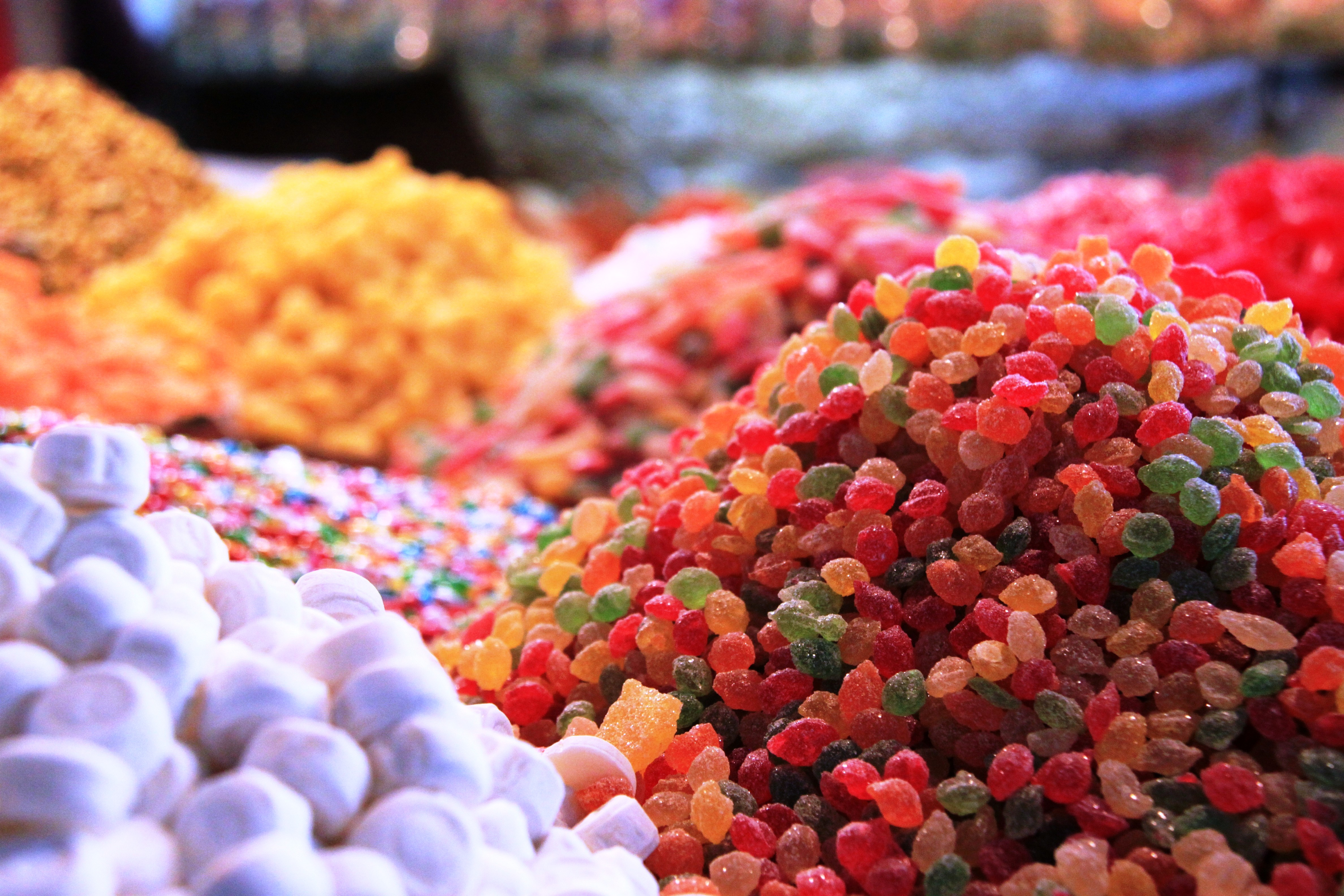 Candy at a souq in Damascus, Syria.